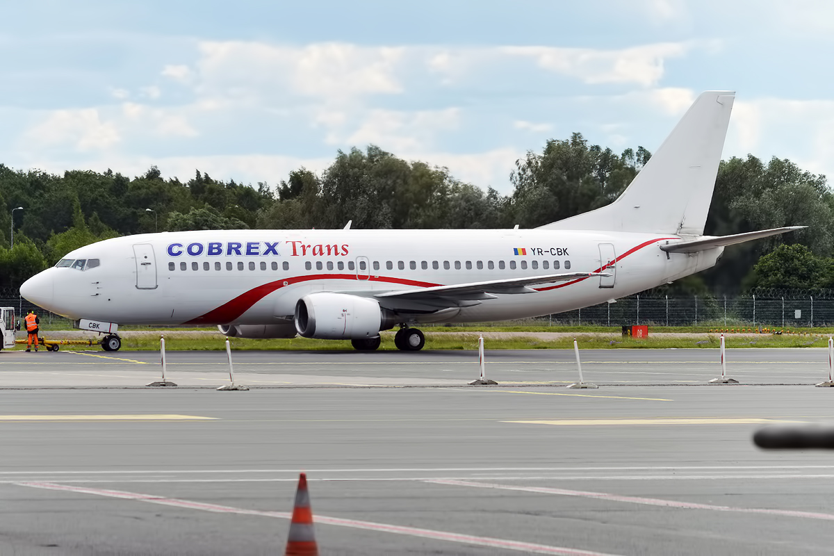 Cobrex Trans, YR-CBK, Boeing 737-382